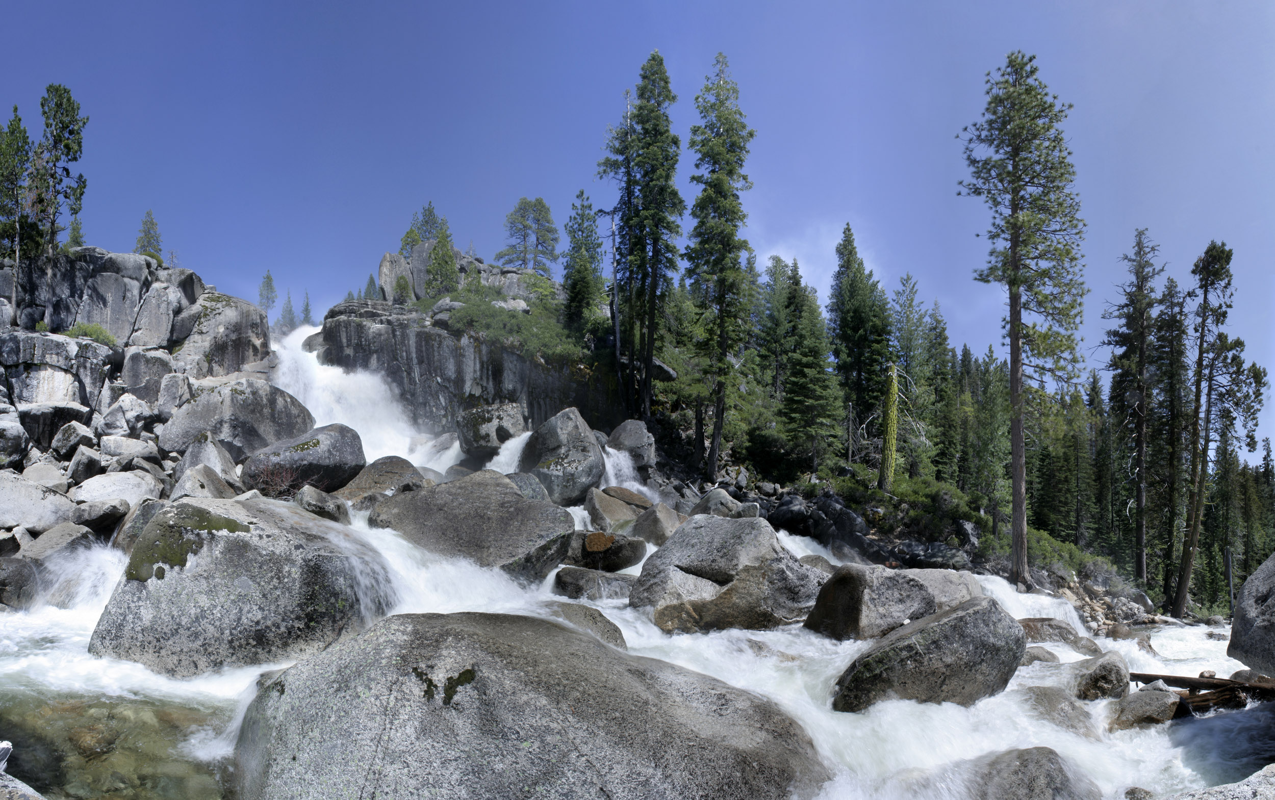 The base of Bassi Falls in the spring